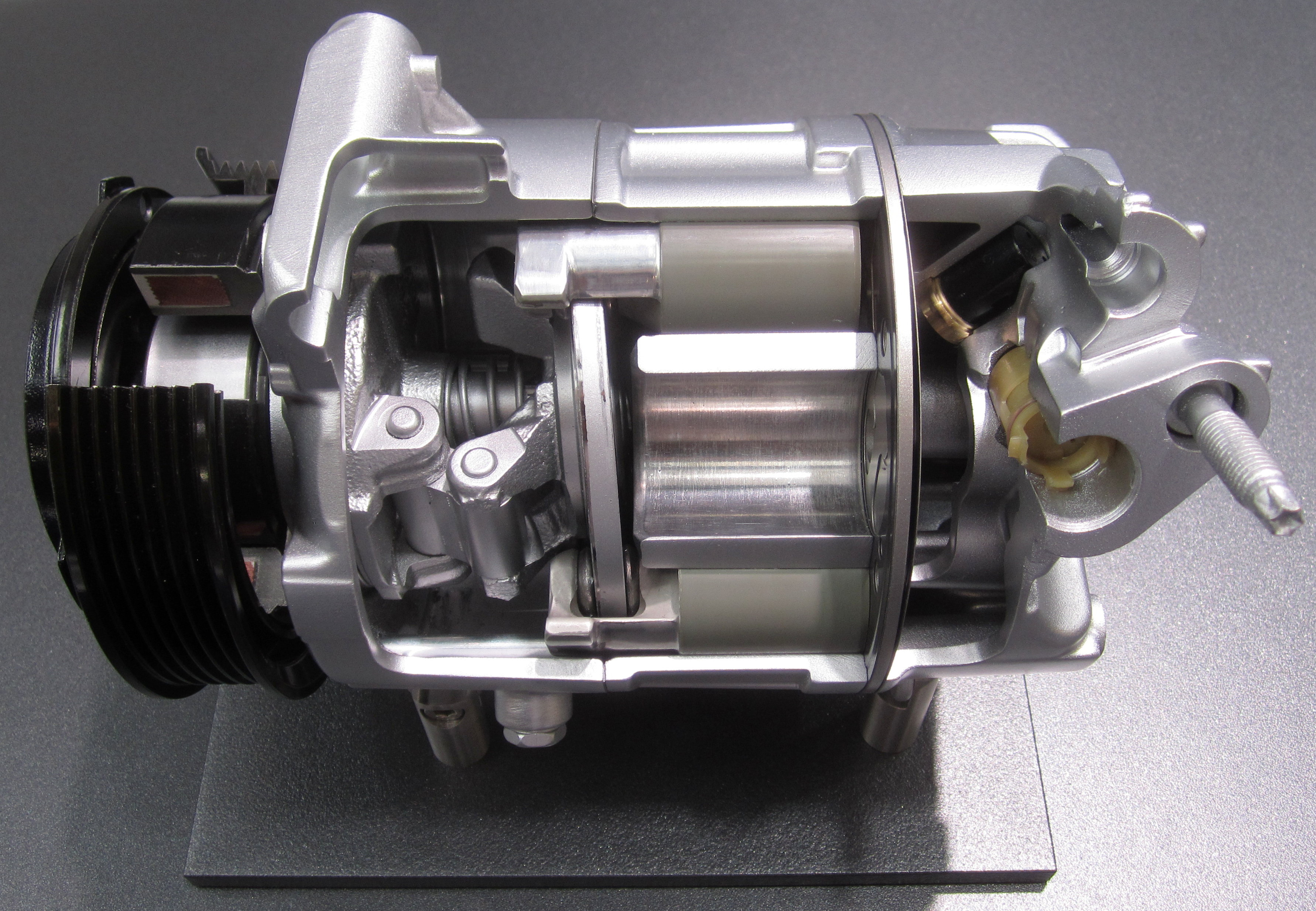 Cut-Out of a Wobbel Plate Compressor for automotive use